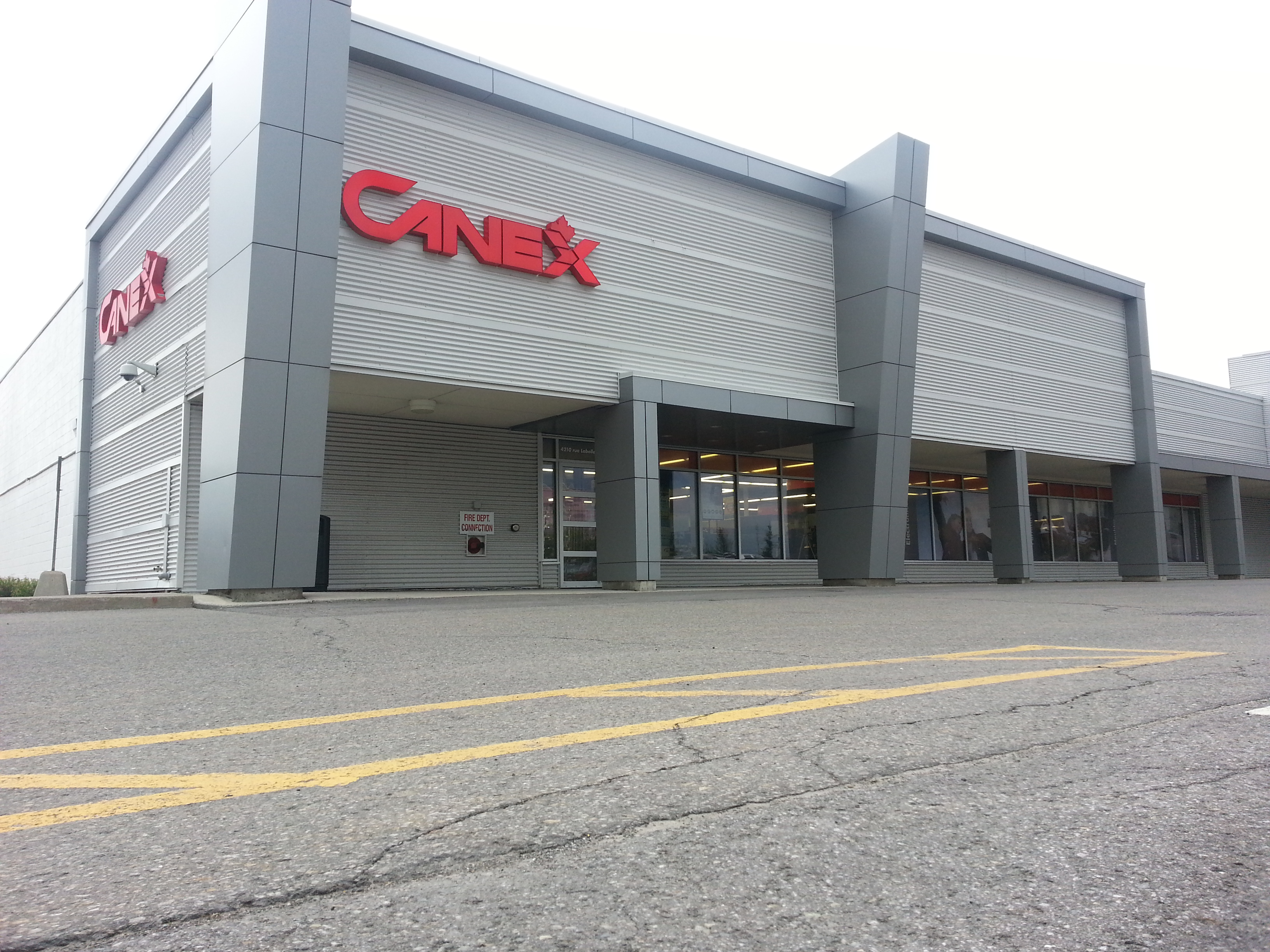 CANEX retail outlet in Ottawa, Ontario.